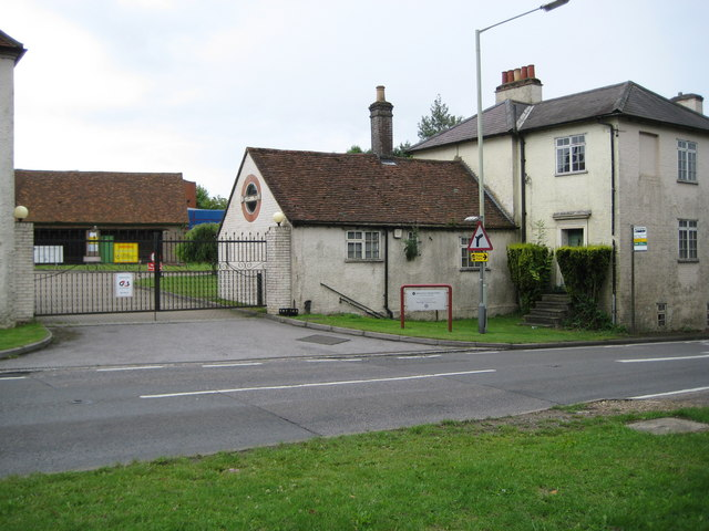 Berkhamsted: The BFI National Archive Kingshill site It seems only right and proper that a project whose aim it is to record photographic images of the British Isles should archive the British Film Institute (BFI)'s own National Archive. So for the record this is the rather unprepossessing entry to their Kingshill site in Berkhamsted. In fact the old tiled barn beyond the gates obscures the view to several large modern archive buildings behind and the site is actually known as the J Paul Getty Junior Conservation Centre. The archive was originally set up as the National Film Library in 1935 and its first curator was Ernest Lindgren. In 1955 its name became the National Film Archive, and, in 1992, the National Film and Television Archive. It was renamed the BFI National Archive in 2006, although the sign outside the site here, inside the red railing, has not yet caught up with the change. The 1883 edition of the Ordnance Survey 6" to the mile map shows an isolated farmstead named Kingshill on the site with the same layout of buildings as visible here.